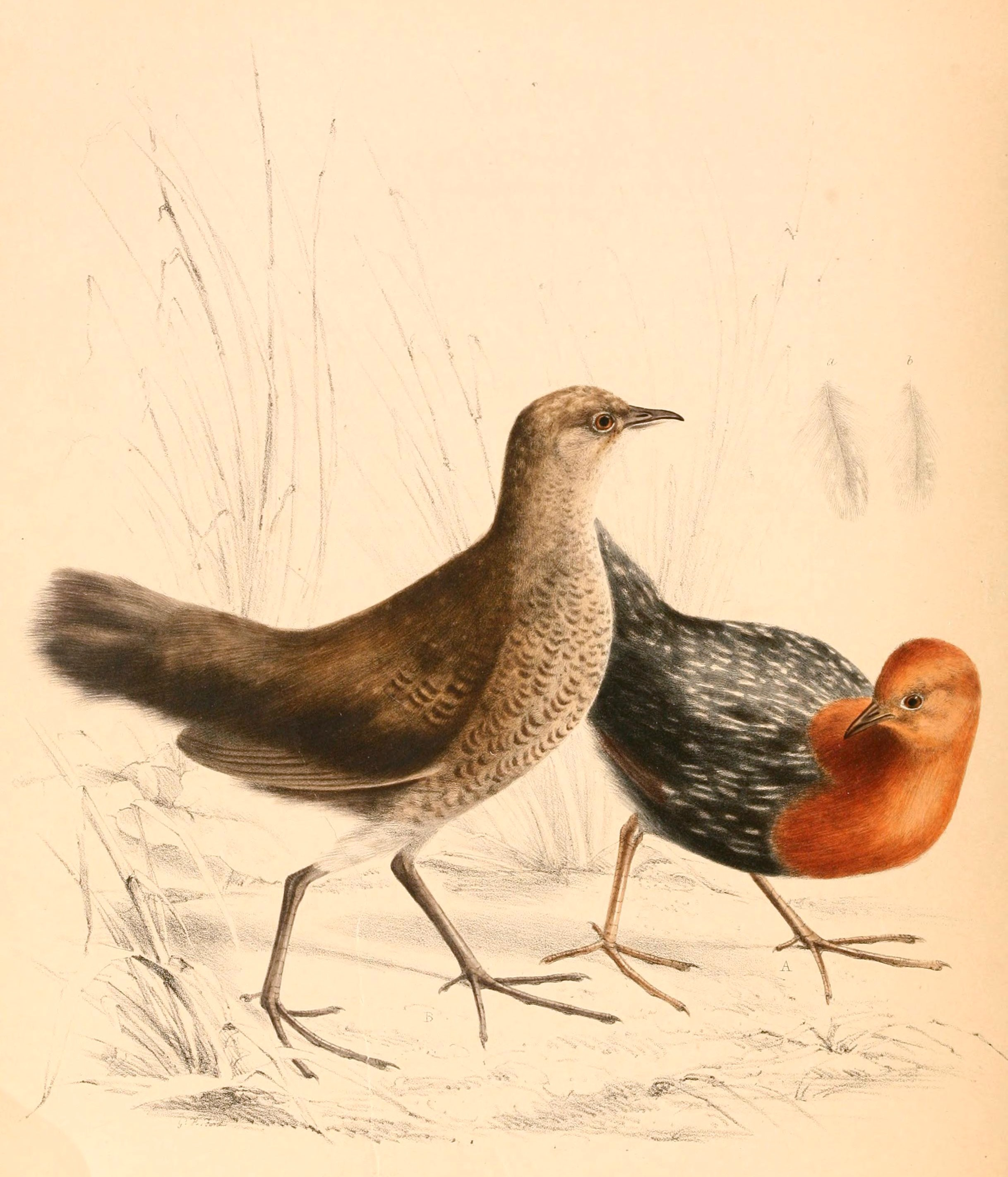 « Gallinula dimidiata » = Sarothrura rufa rufa (Subspecies of Red-chested Flufftail) - adult male on the right, young female on the left